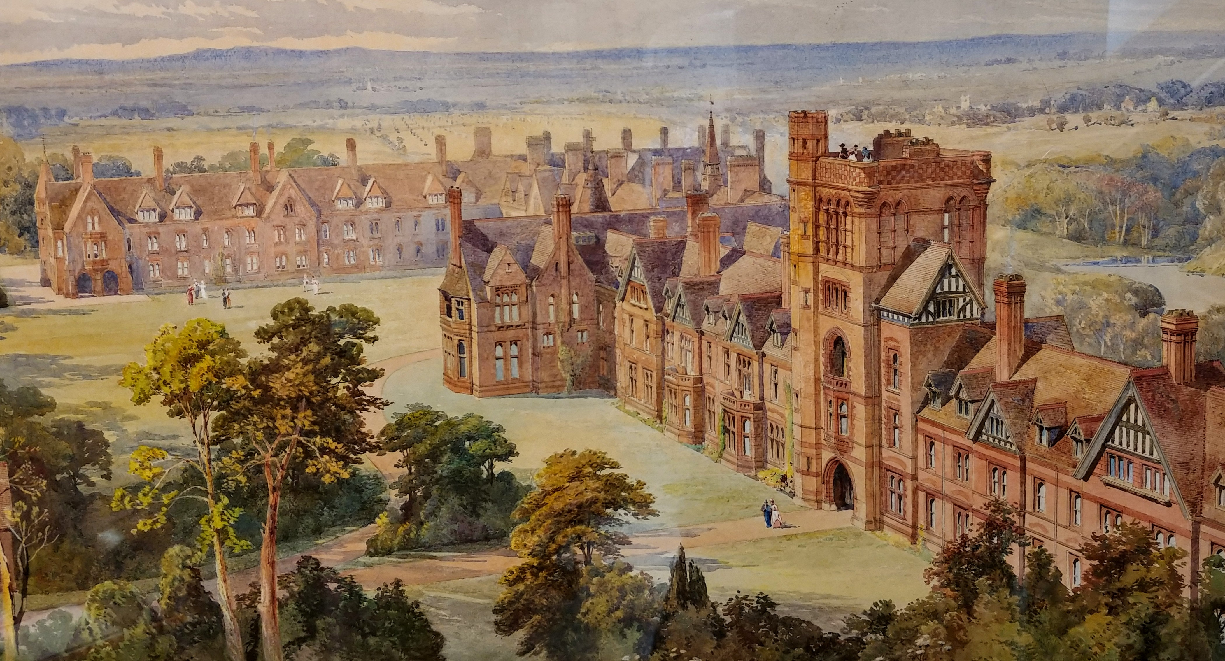 Overview of Girton College